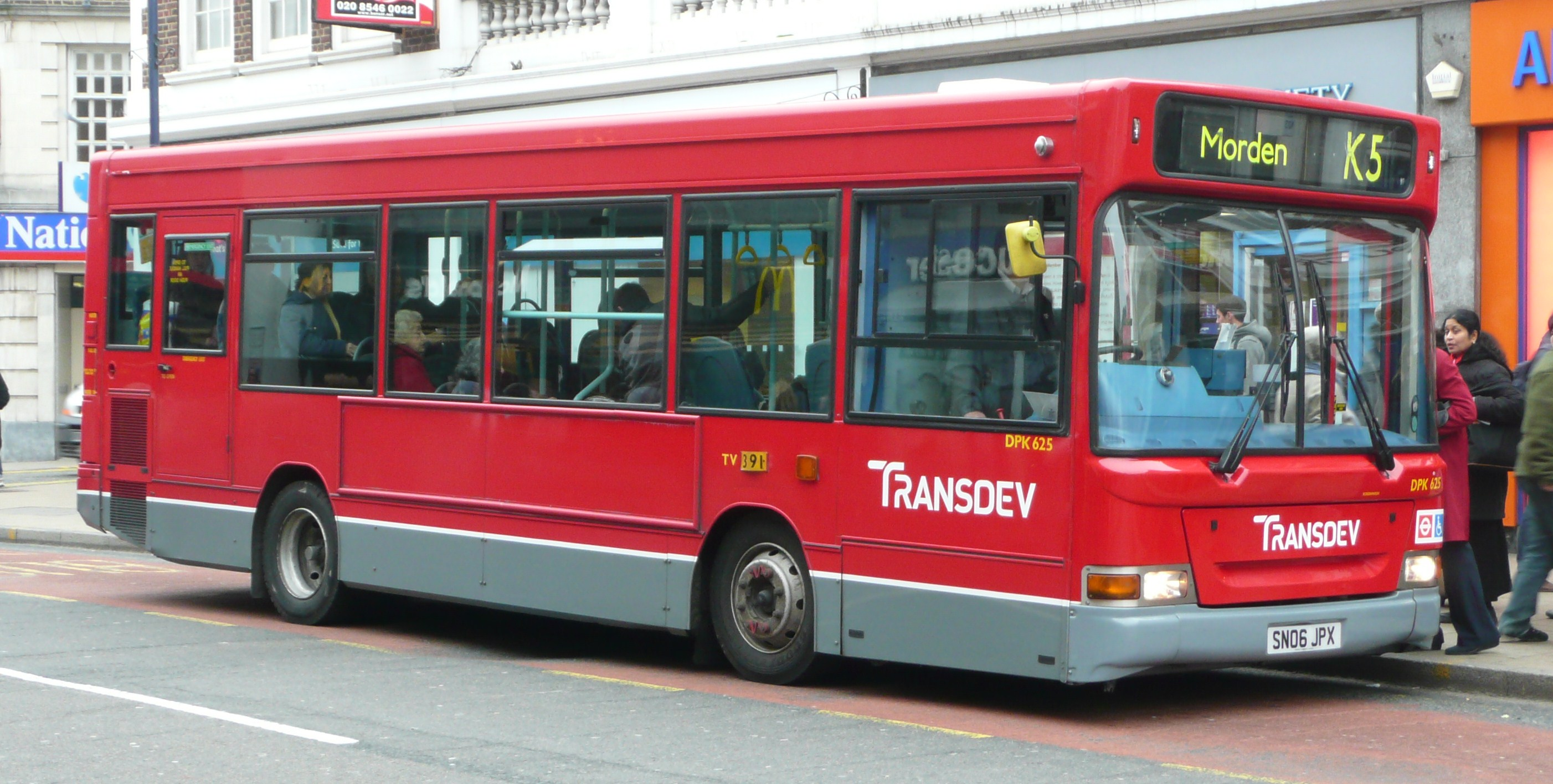 Transdev London's DPK625 (SN06 JPX), a Dennis Dart/Plaxton Pointer in Kingston on route K5.